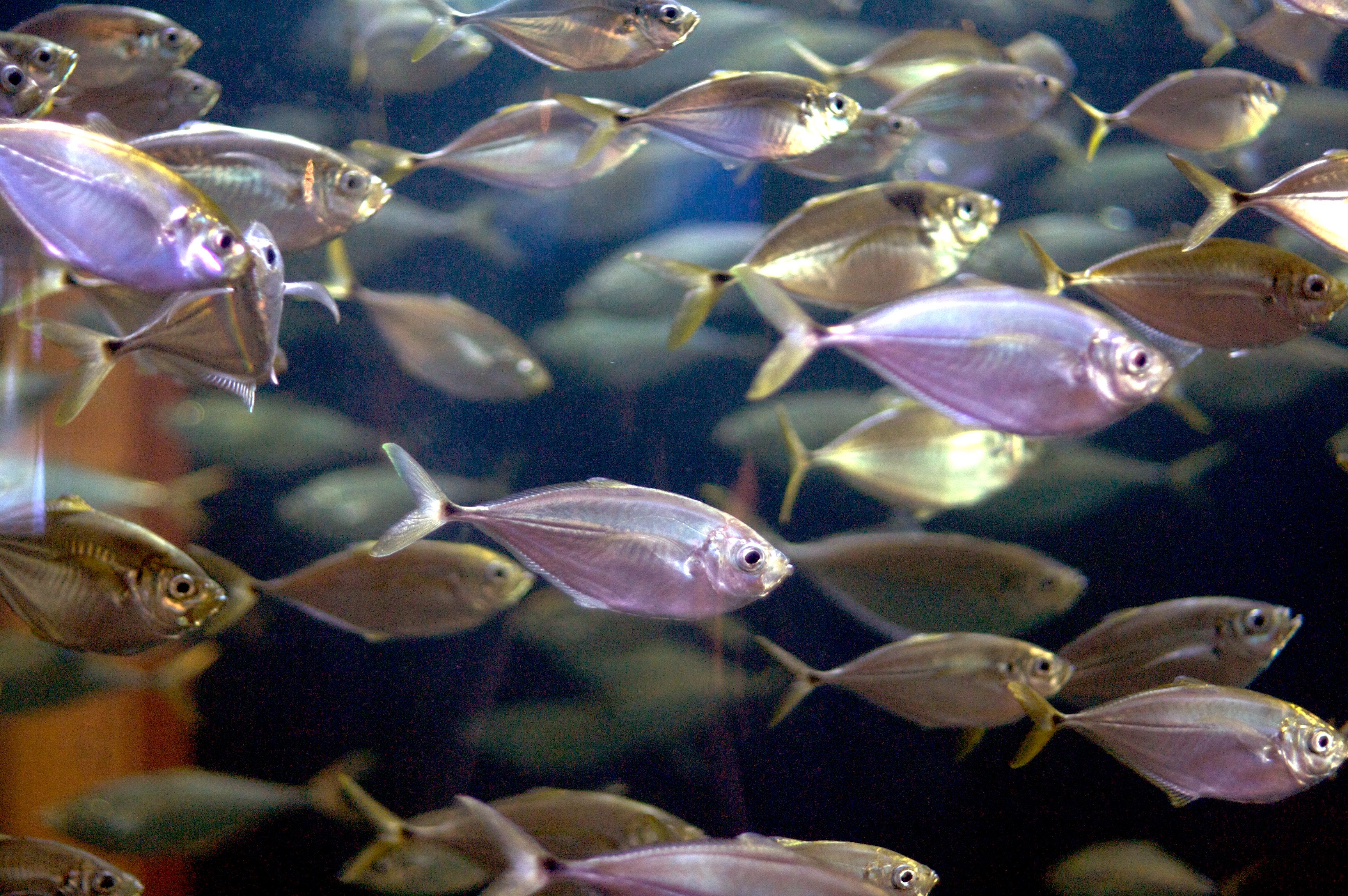 Schooling Fish at the SC Aquarium Licensing